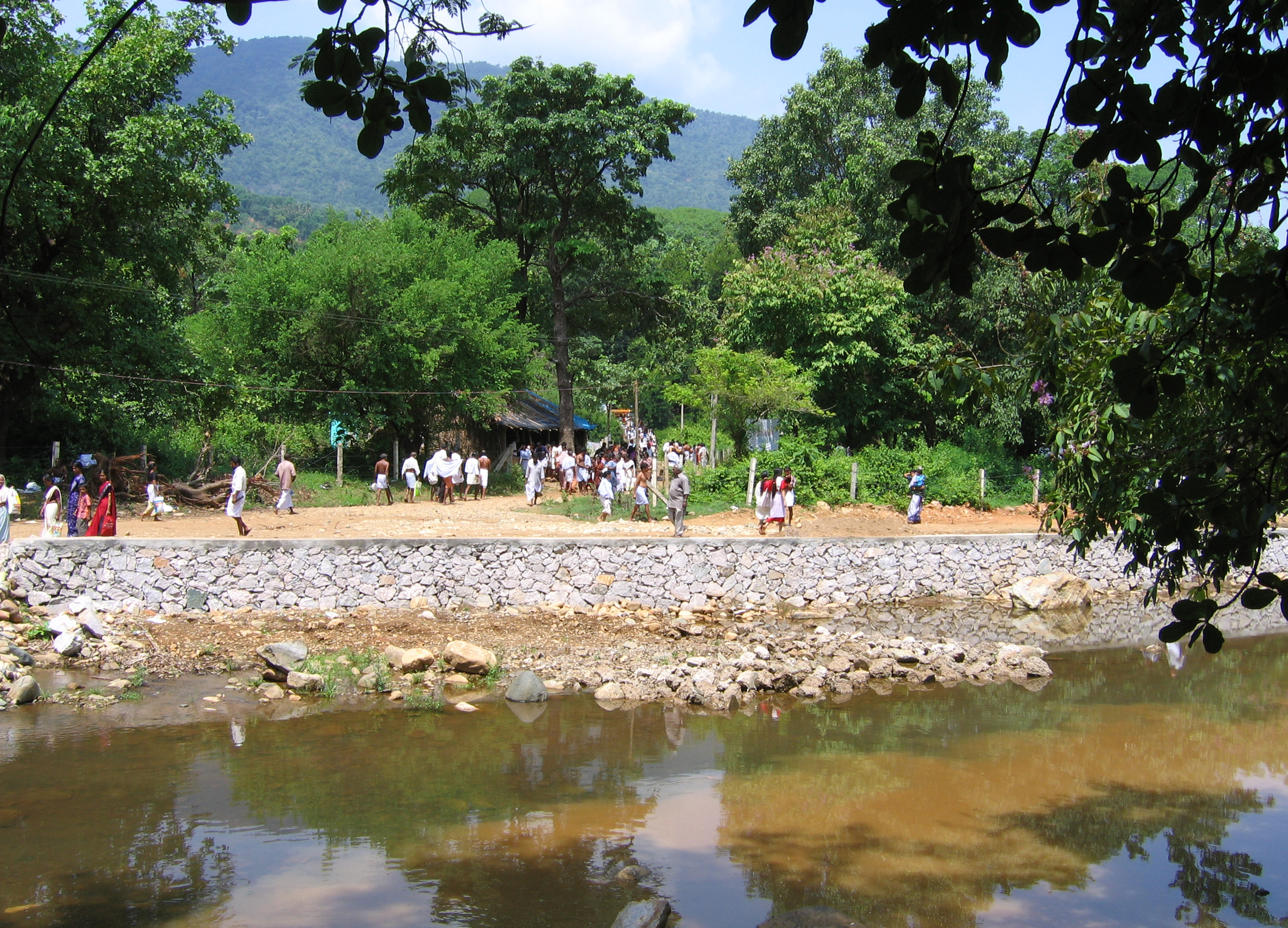 During the festival season May-June every year devotees throng to Akkare-Kottiyoor temple, which is closed for the other eleven months.